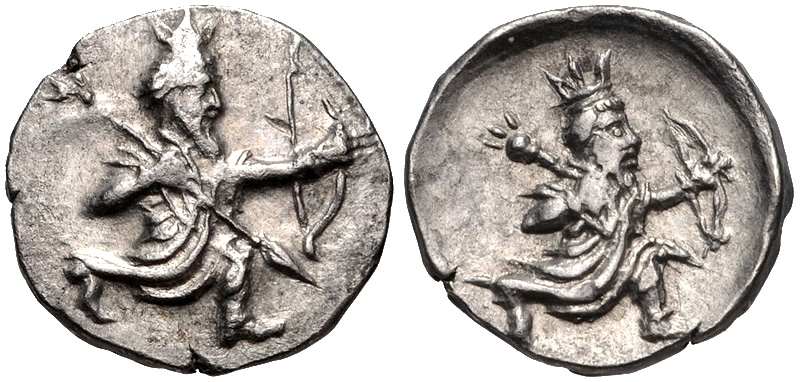 CILICIA, Mallos. Circa 390-385 BC. AR Obol (10mm, 0.61 g, 10h). Persian king of hero in kneeling-running stance right, holding transverse spear and bow / Persian king of hero in kneeling-running stance right, holding transverse spear and bow. Casabonne -; Göktürk 34; SNG France 401. Choice EF. Great metal.